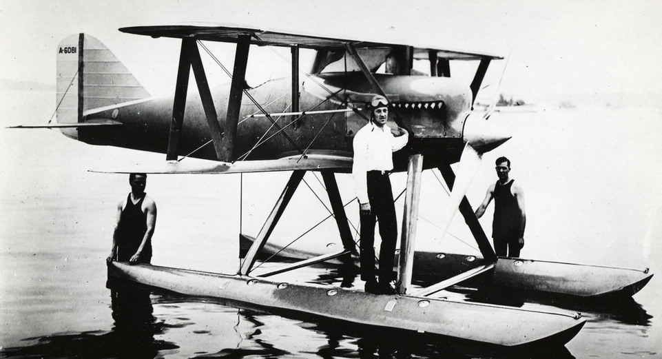 Official U.S. photograph of LT David Rittenhouse, USN (center image)